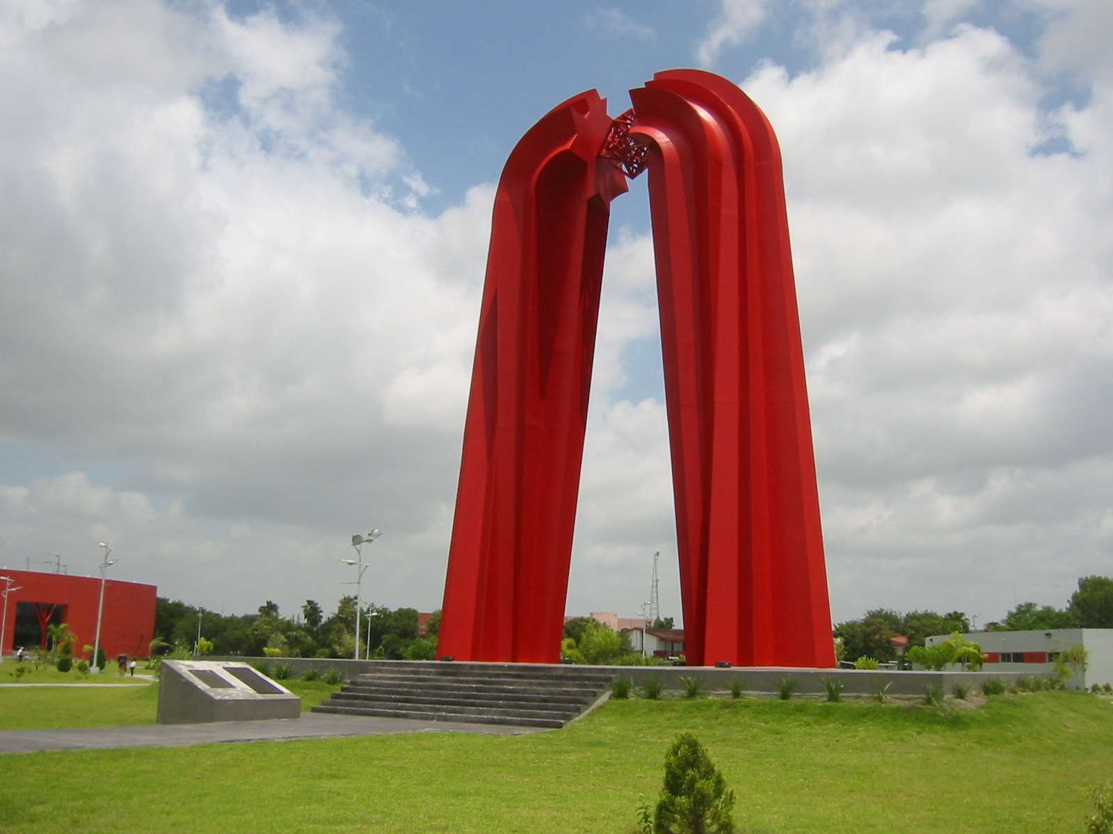 "The Gateway to Mexico" Monument, sculpture by Sebastián in the city of Matamoros, Mexico